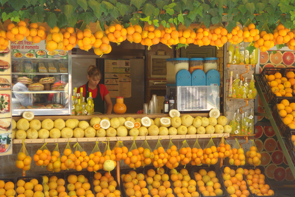 Lemon stand located in Pompeii, Italy